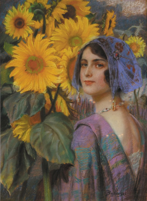 Girl with sunflowers